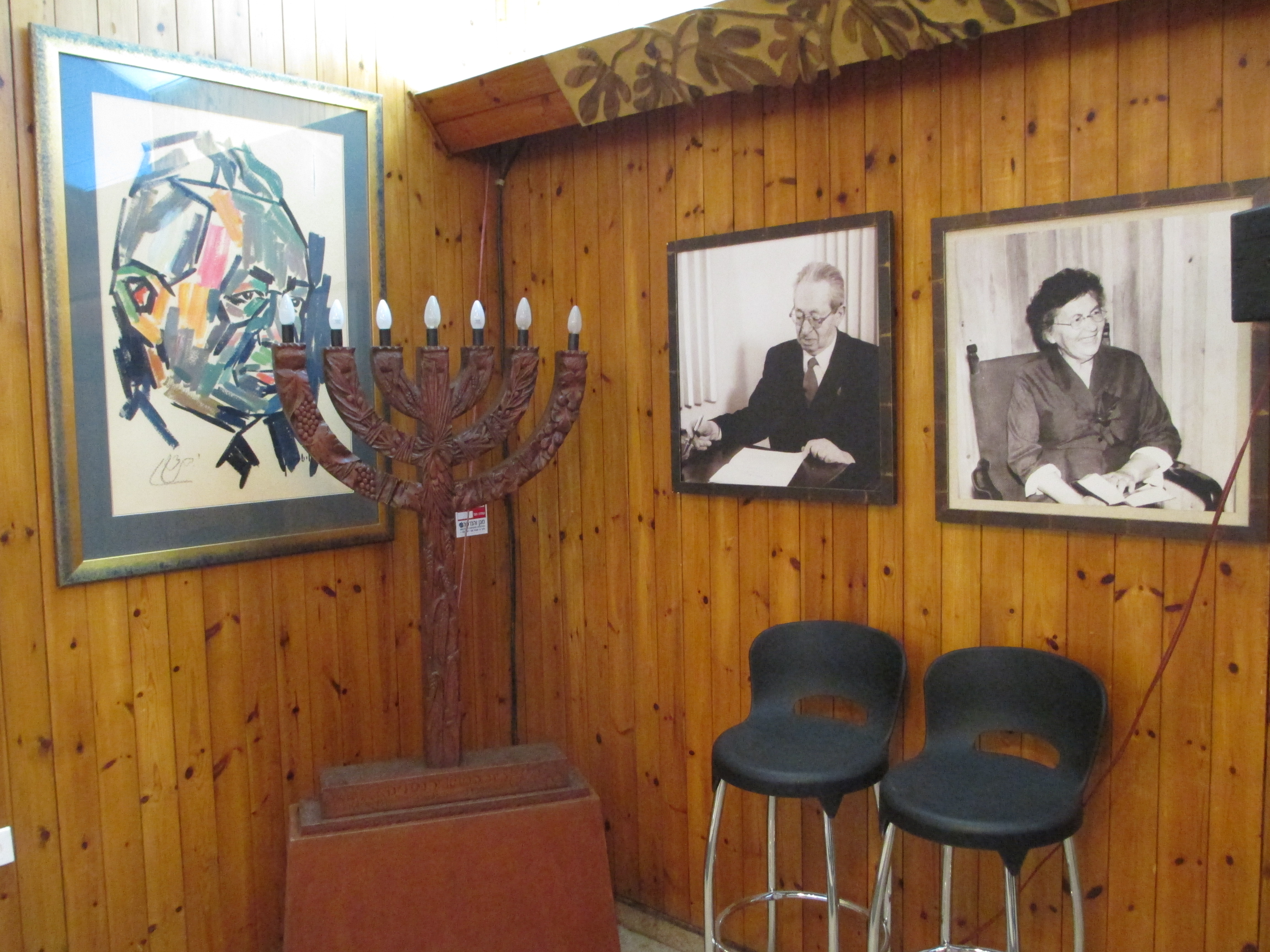 Yad Itzhak Ben Zvi, Jerusalem